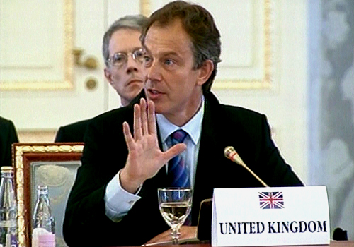 CONSTANTINE PALACE, STRELNA. British Prime Minister Tony Blair at a plenary meeting of the Russia - EU Summit.